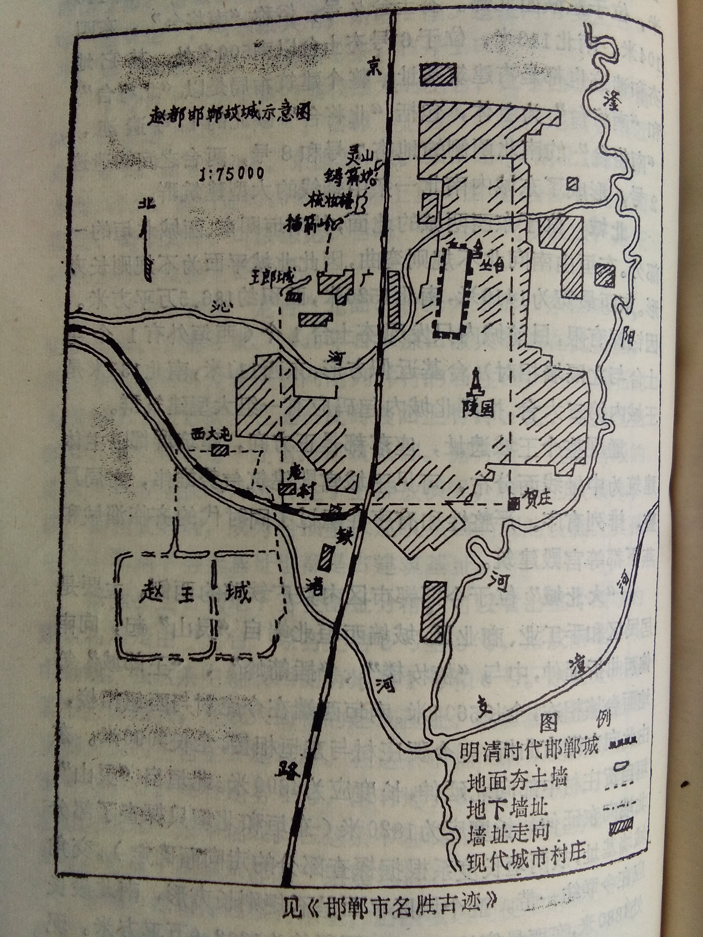 Zhao Handan plan of the capital, selected by Hao Liang Zhen "A Brief History of Handan", p. 50.